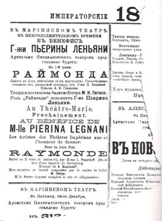 Advertisement for the premiere of Mariinsky Ballet's Raymonda.